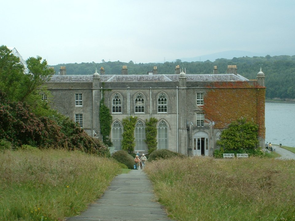 Plas Newydd, Anglesey, Wales. Taken by Necrothesp, 25 June 2005.